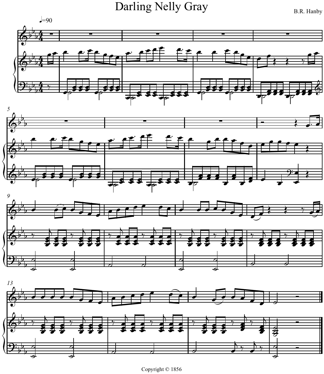 "Darling Nelly Gray", page one. Created by Hyacinth (talk) 03:30, 6 June 2011 (UTC) using Sibelius 5 after - "An Online Scrapbook of Ohio History". According to the site, the contributor was the Ohio State University Music and Dance Library. Author died in 1867.=/p267401coll36&CISOPTR=5313&REC=7